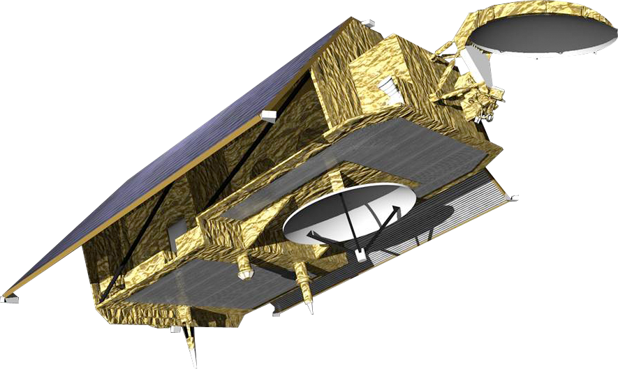 Illustration of the Sentinel-6/Jason-CS spacecraft on a transparent background.